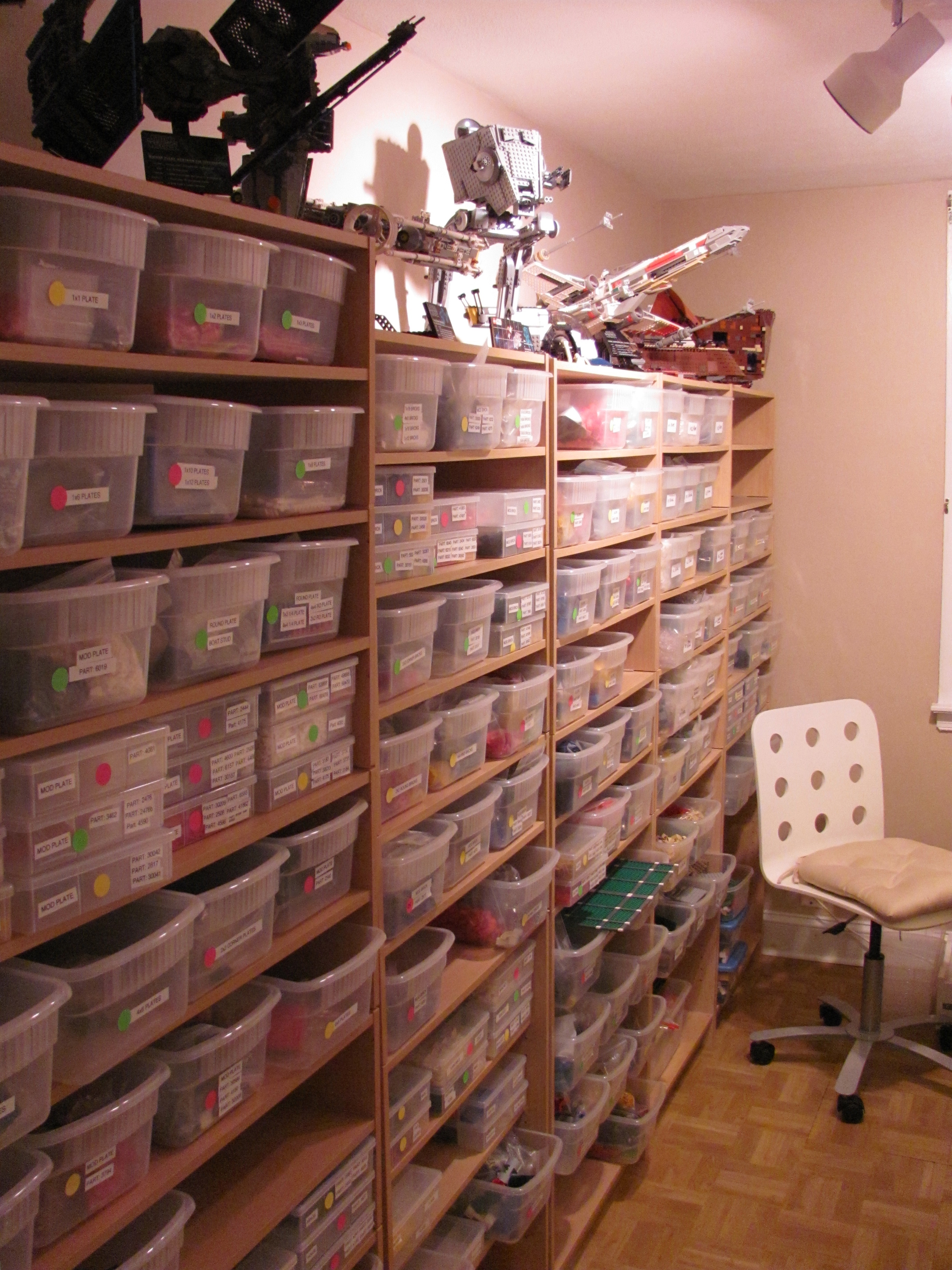 Shots of my Lego room - total size about 95 sq ft of usable space. Build table is 6 feet long, drawers hold baggies, instructions, & shipping supplies. Room contains about 250,000 parts (give or take a few) in the various bins and bead boxes. Organization - parts are organized by BrickLink Category, then part number, then color (bins are all labeled with part numbers). The elements in the shoeboxes are in zip-locs, the bead boxes hold smaller elements. Large categories (bricks, plates, etc) get their own section, smaller categories share sections.